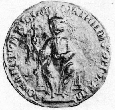 Seal of Matilda, daughter of Henry I of England * This is a scan of the historical document: Title: Die Siegel der deutschen Kaiser und Könige v. 1 (751 - 1347)